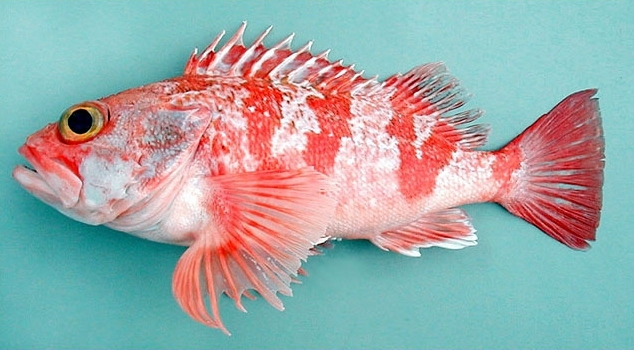 Blackbelly rosefish. Gulf of Mexico.